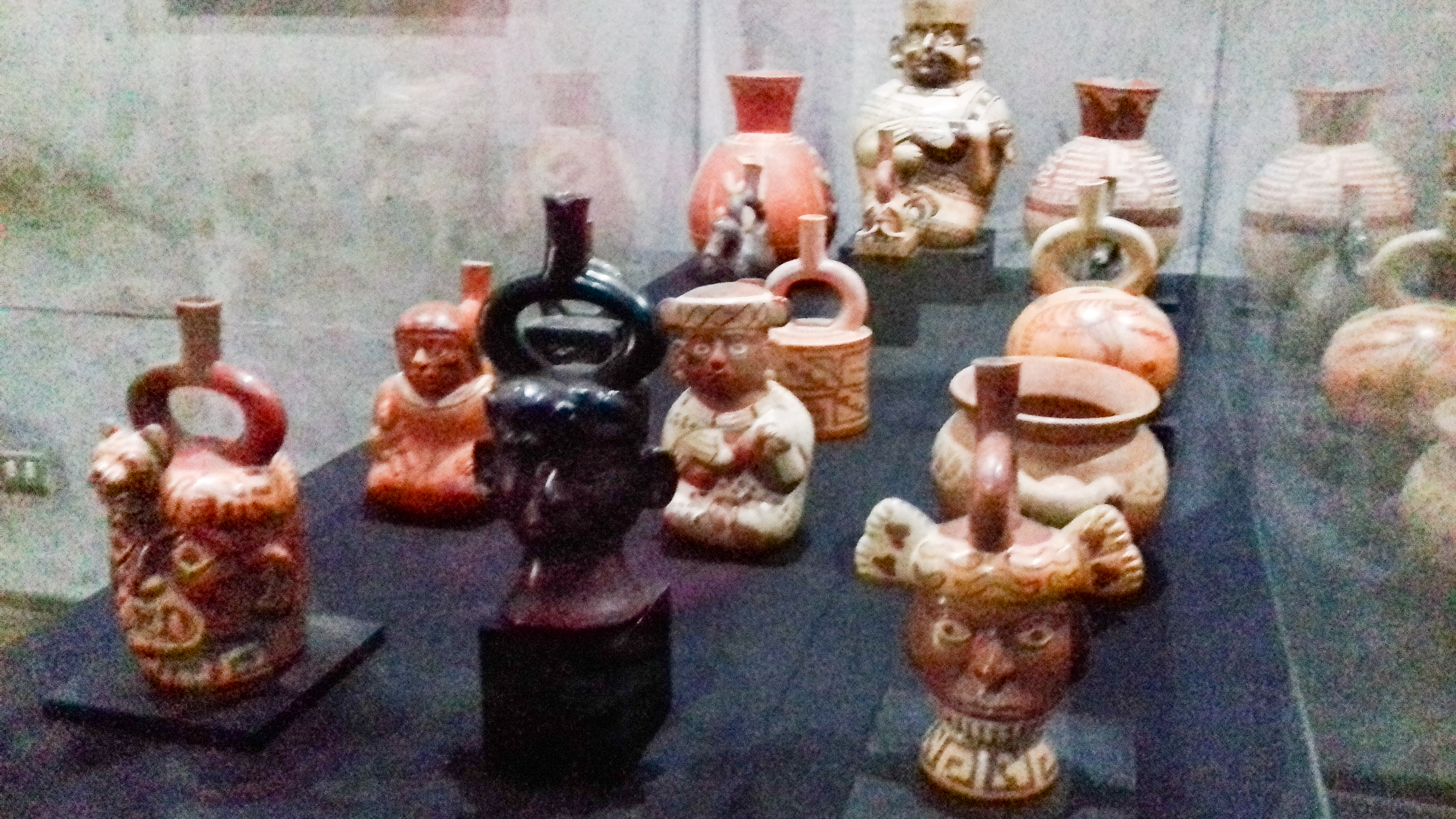 The Cao Museum is located on the El Brujo archaeological site near Trujillo in Peru.